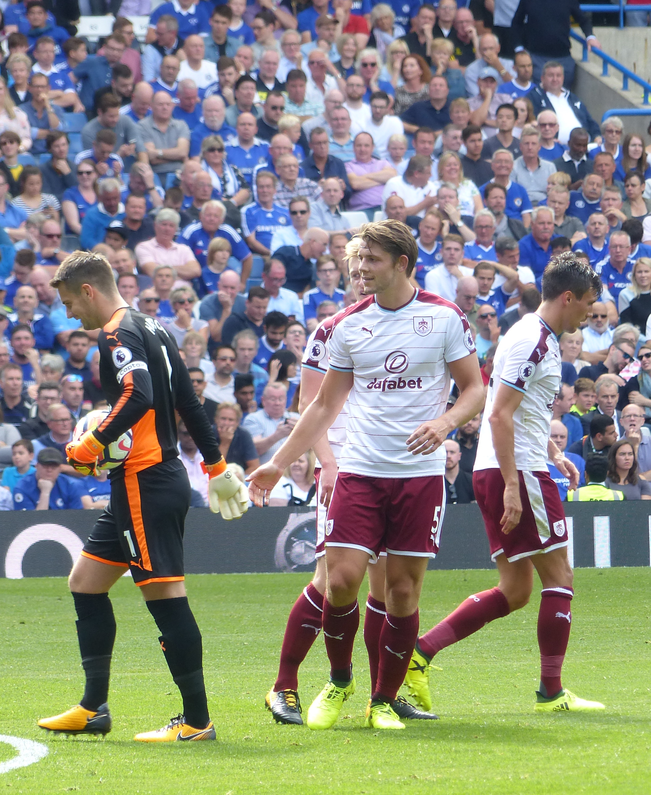 Burnley F.C.'s James Tarkowski and Tom Heaton in action away to Chelsea F.C., August 2017